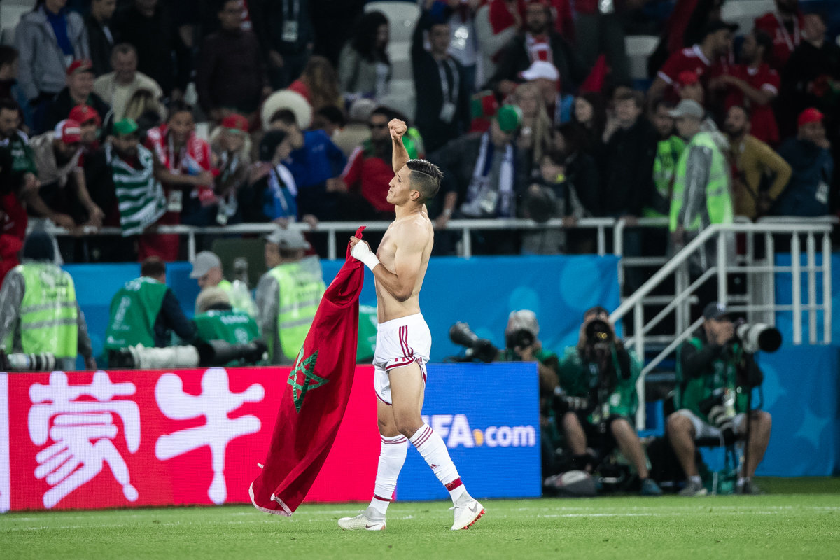 Spain-Morocco match, Group B, 2018 FIFA World Cup